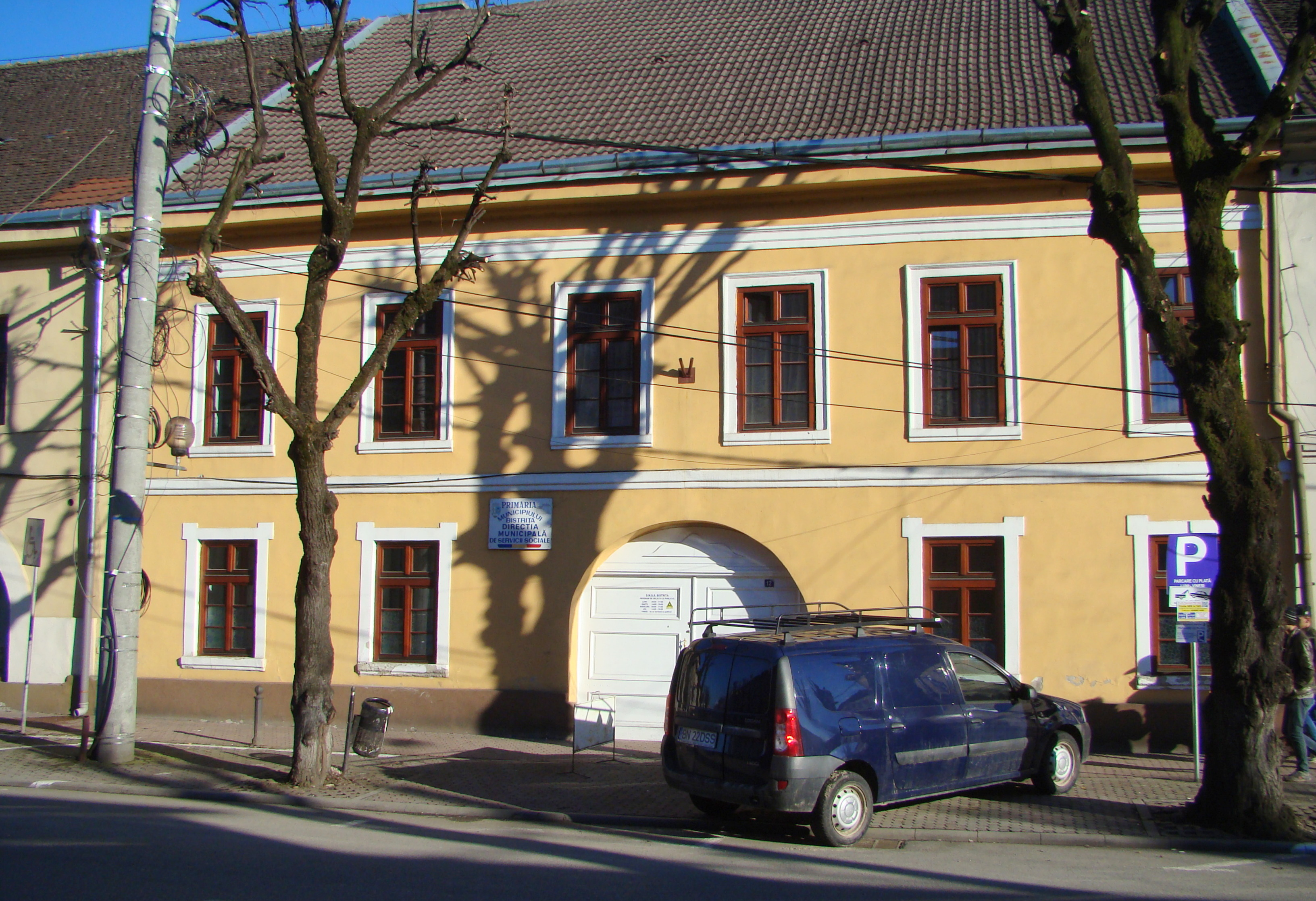 House, historic monument, in Bistriţa, Dornei street, number 12